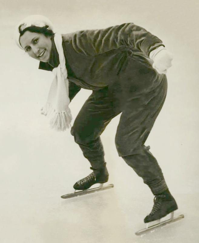 1932 Press Photo Lela Brooks Potter Canadian Olympic speed skater - sbs05256